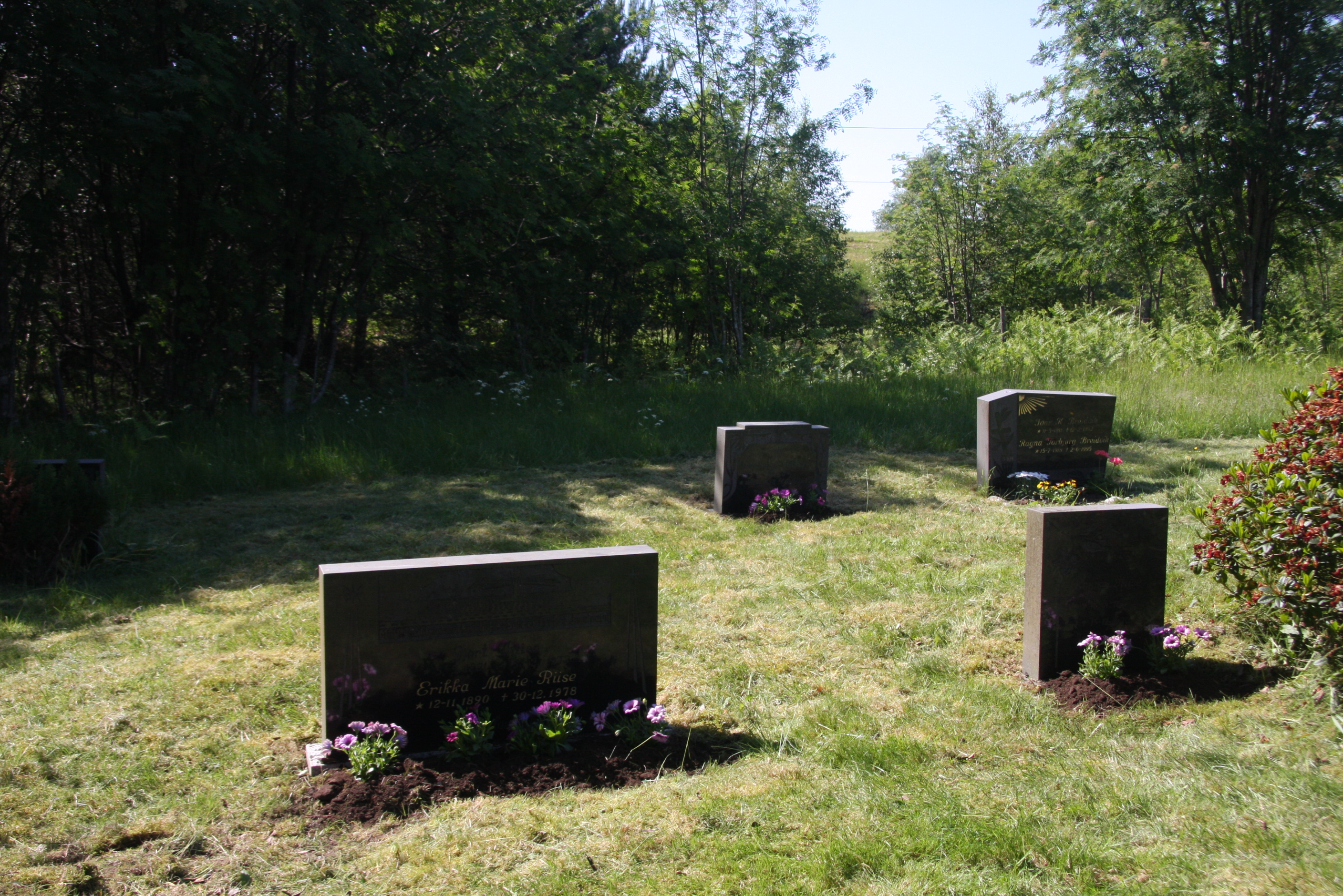 Rutle in Gulen municipality, Norway.